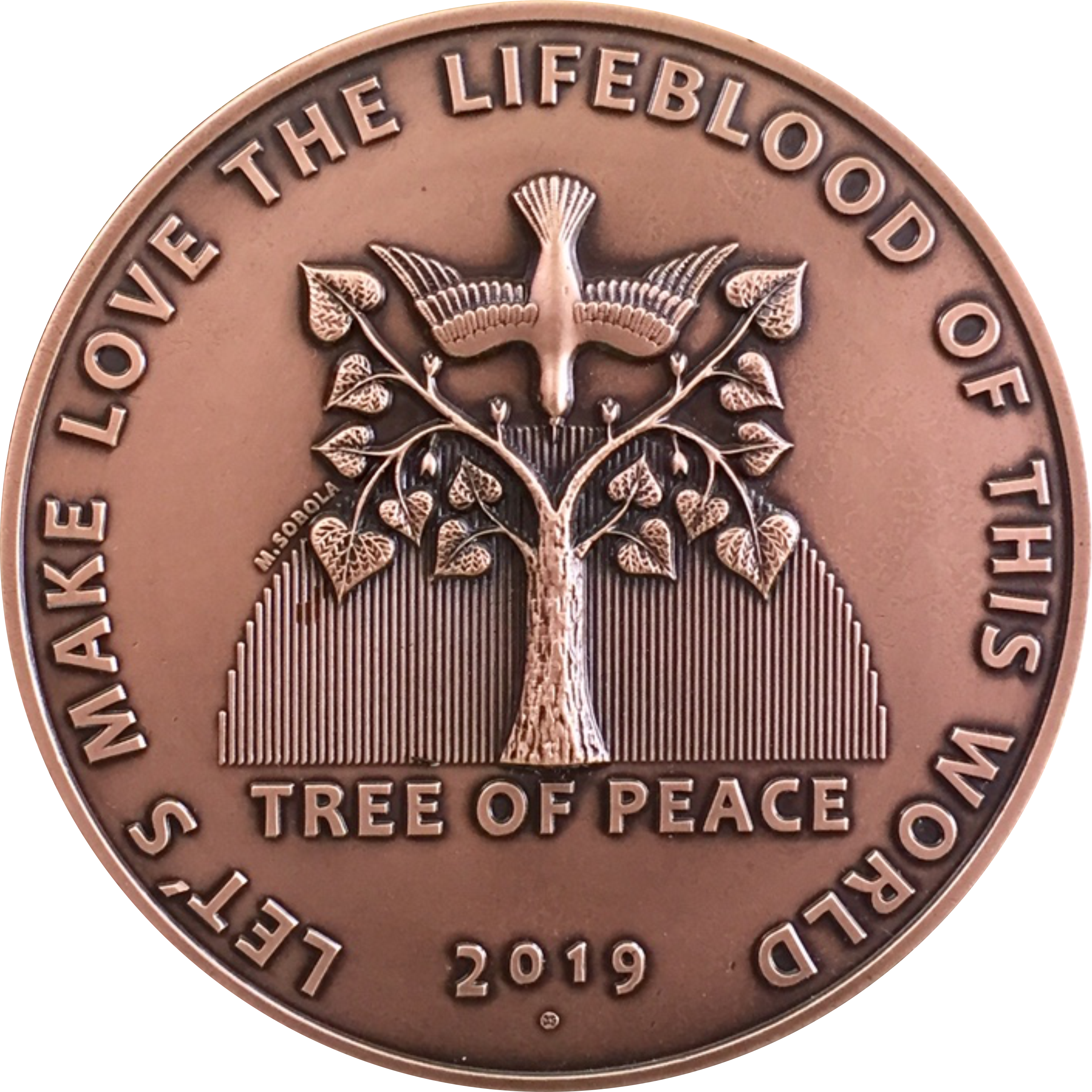 Copper plaque embossed in Kremnica Mint in Slovakia. The author of the design is Marek Sobola